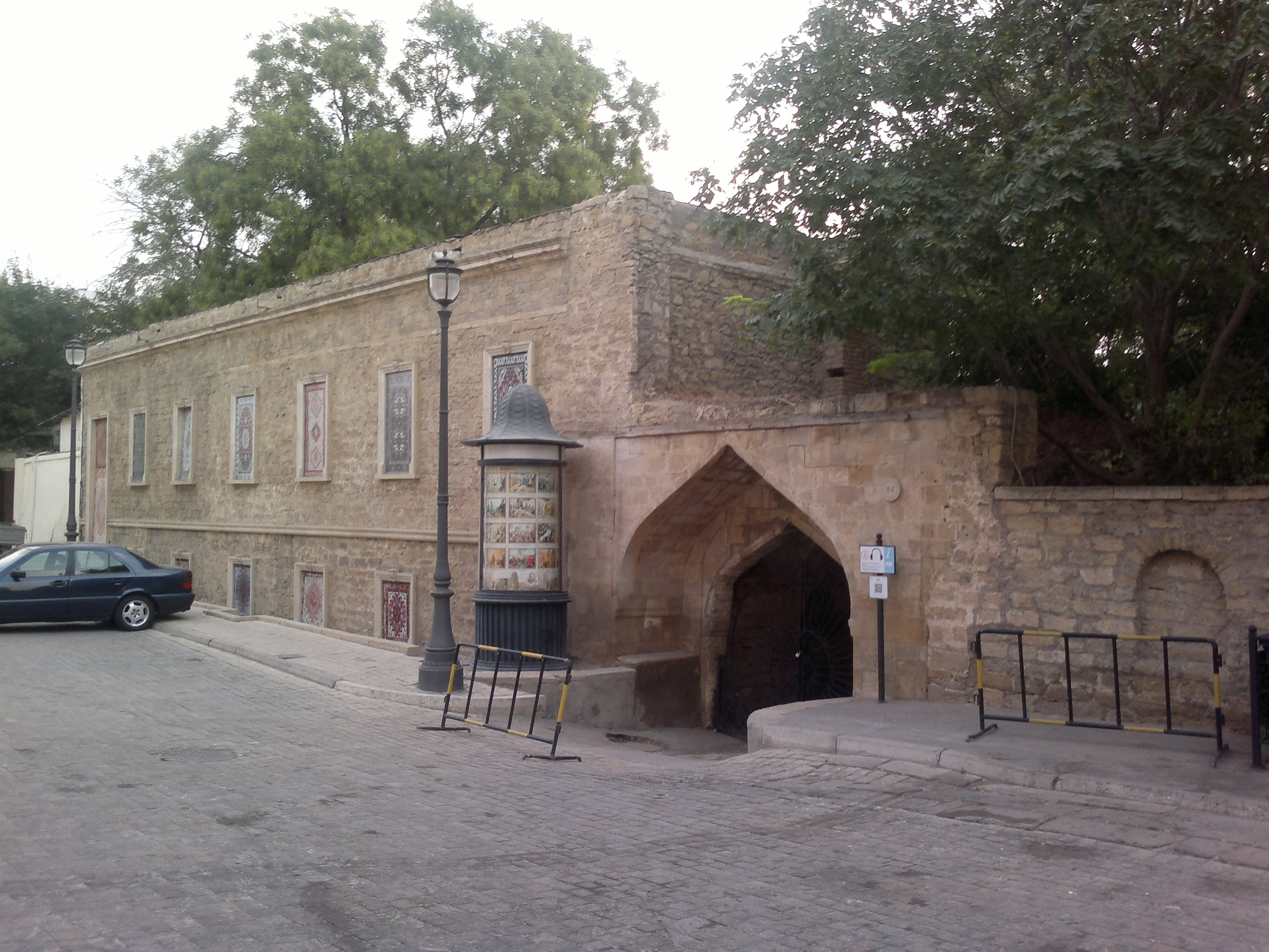 Baku Khan's Palace in Ichery Sheher. Built in the 17th/18th century.